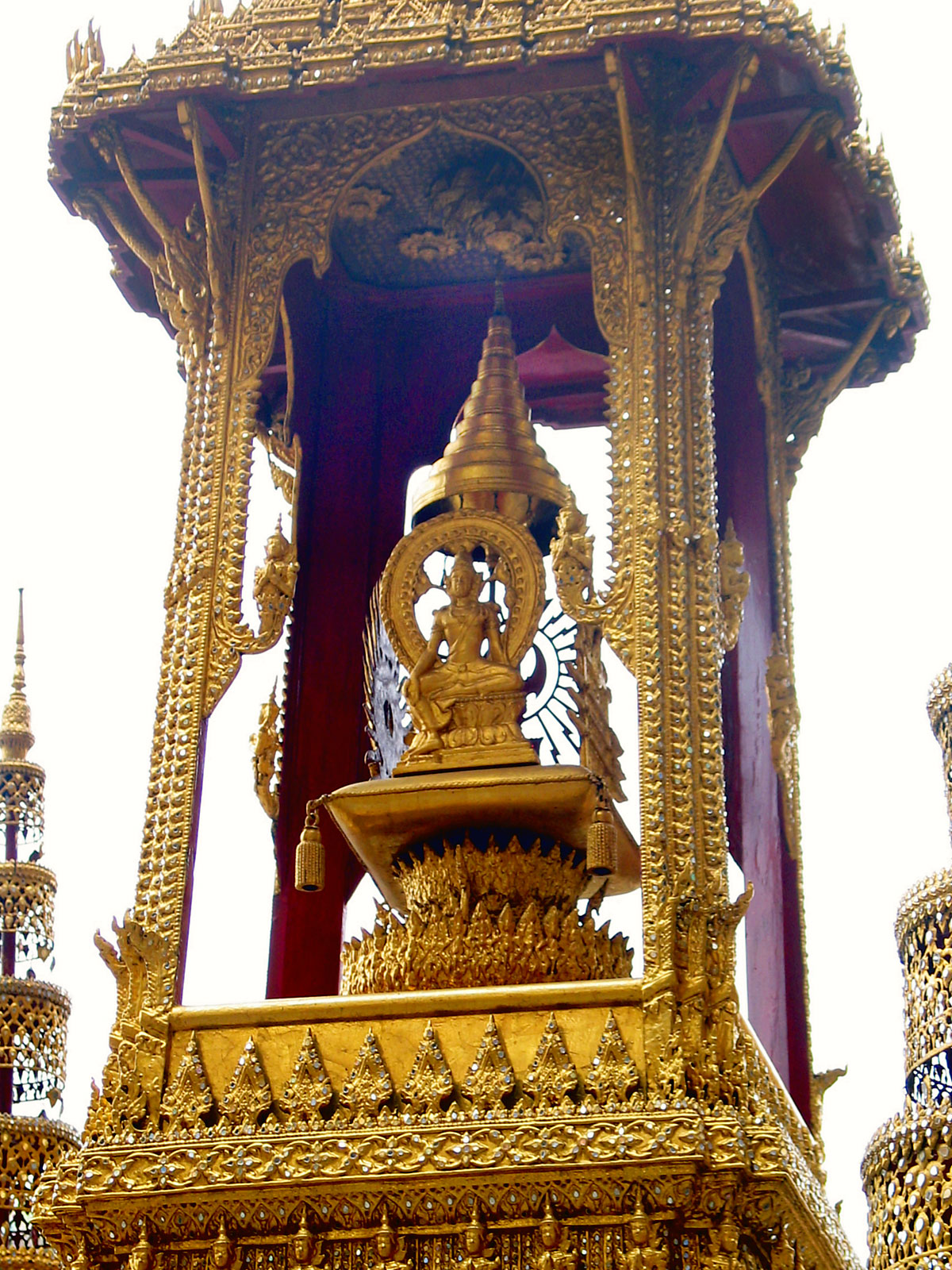 Monument (busabok) with insignia of King Rama VIII within Wat Phra Kaew (Bangkok, Thailand), showing a Bodhisattva.